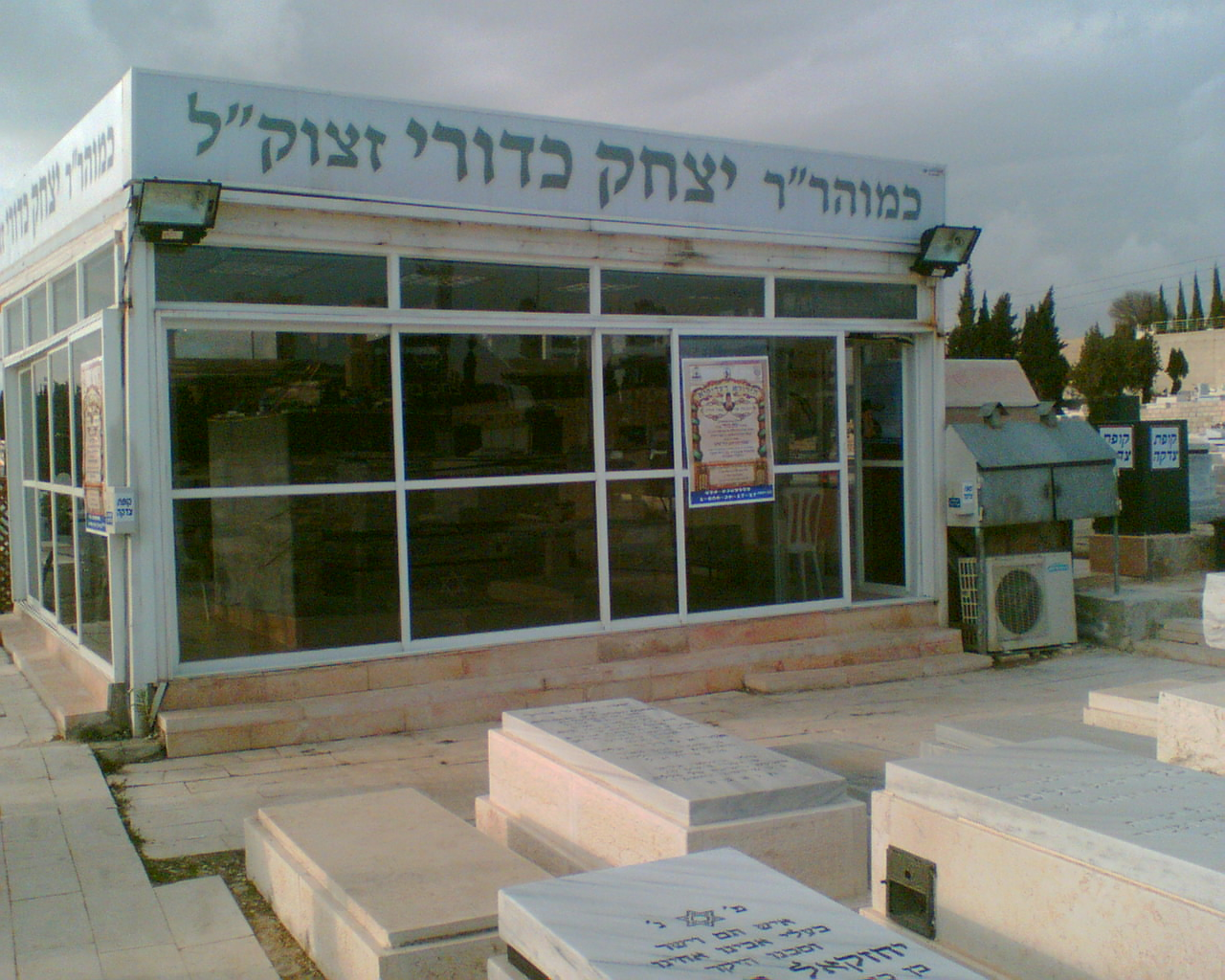 Grave of Rabbi Yitzhak Kaduri in the Har Tamir cemetery, Jerusalem